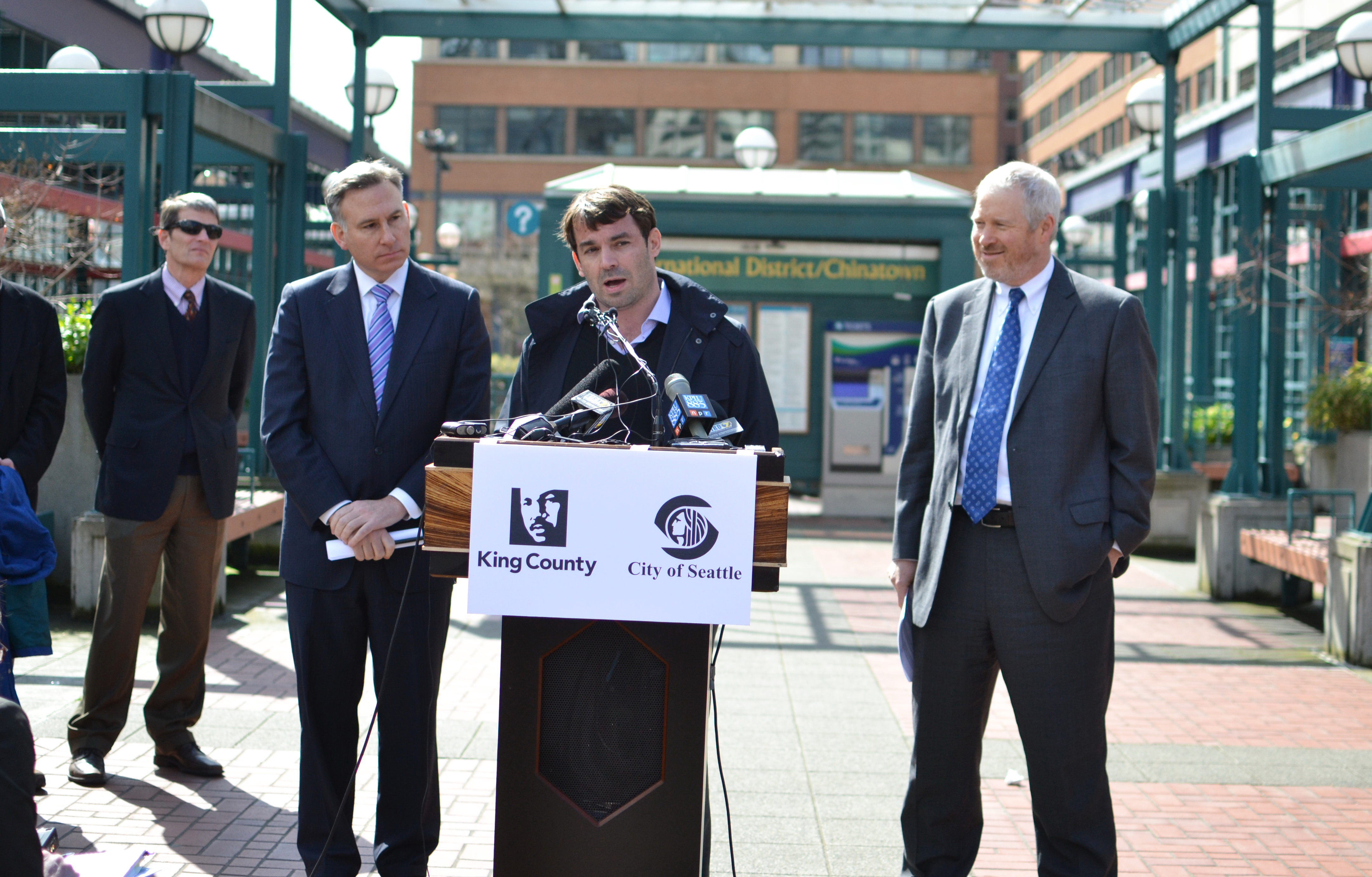 (Left to right) King County Executive Dow Constantine, Chris Hansen, and Seattle Mayor Mike McGinn outside International District/Chinatown Station announcing an agreement related to the proposed Sonics Arena.